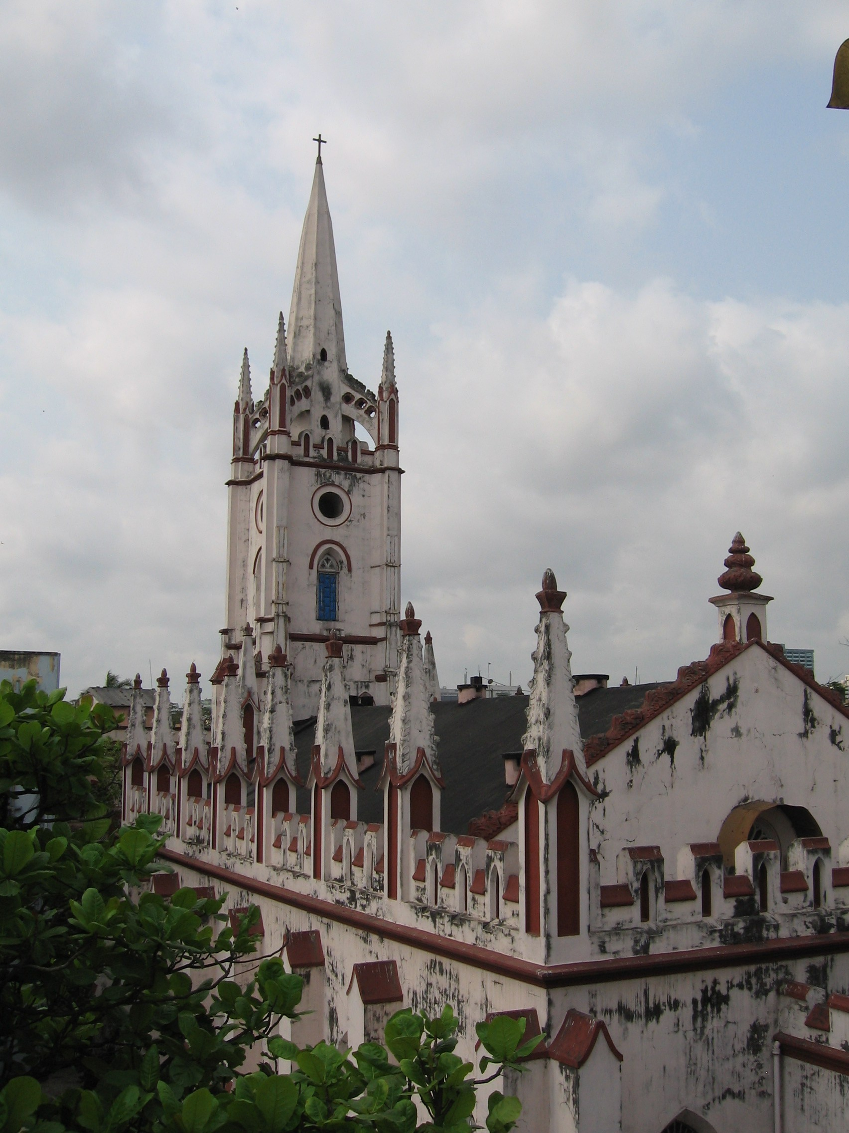 Church of the Lord Jesus (Prabhu Jisur Girja), at Rafi Ahmed Kidwai Rd, Kolkata